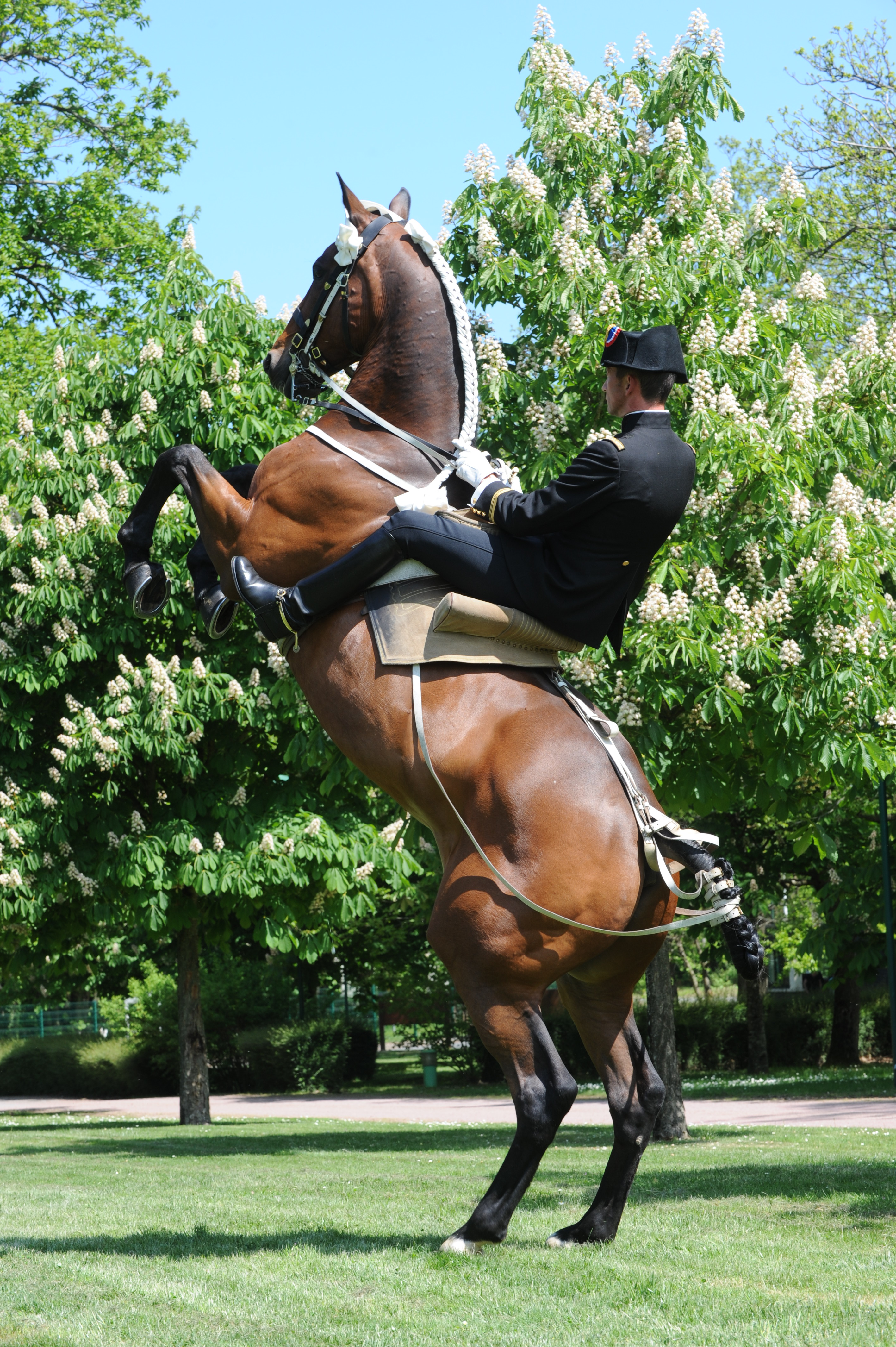 This photograph was taken by a Wikipedian, or provided by the Cadre noir, during a special day in May 2012 English | français | +/−